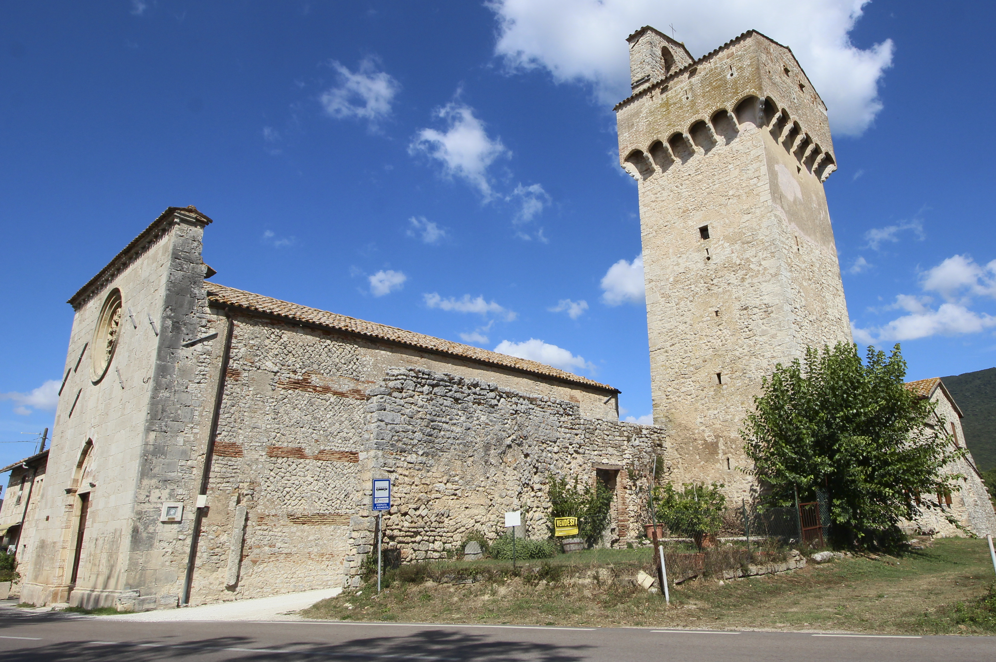 Santa Maria in Pantano, church in the territory of Massa Martana, Province of Perugia, Umbria, Italy